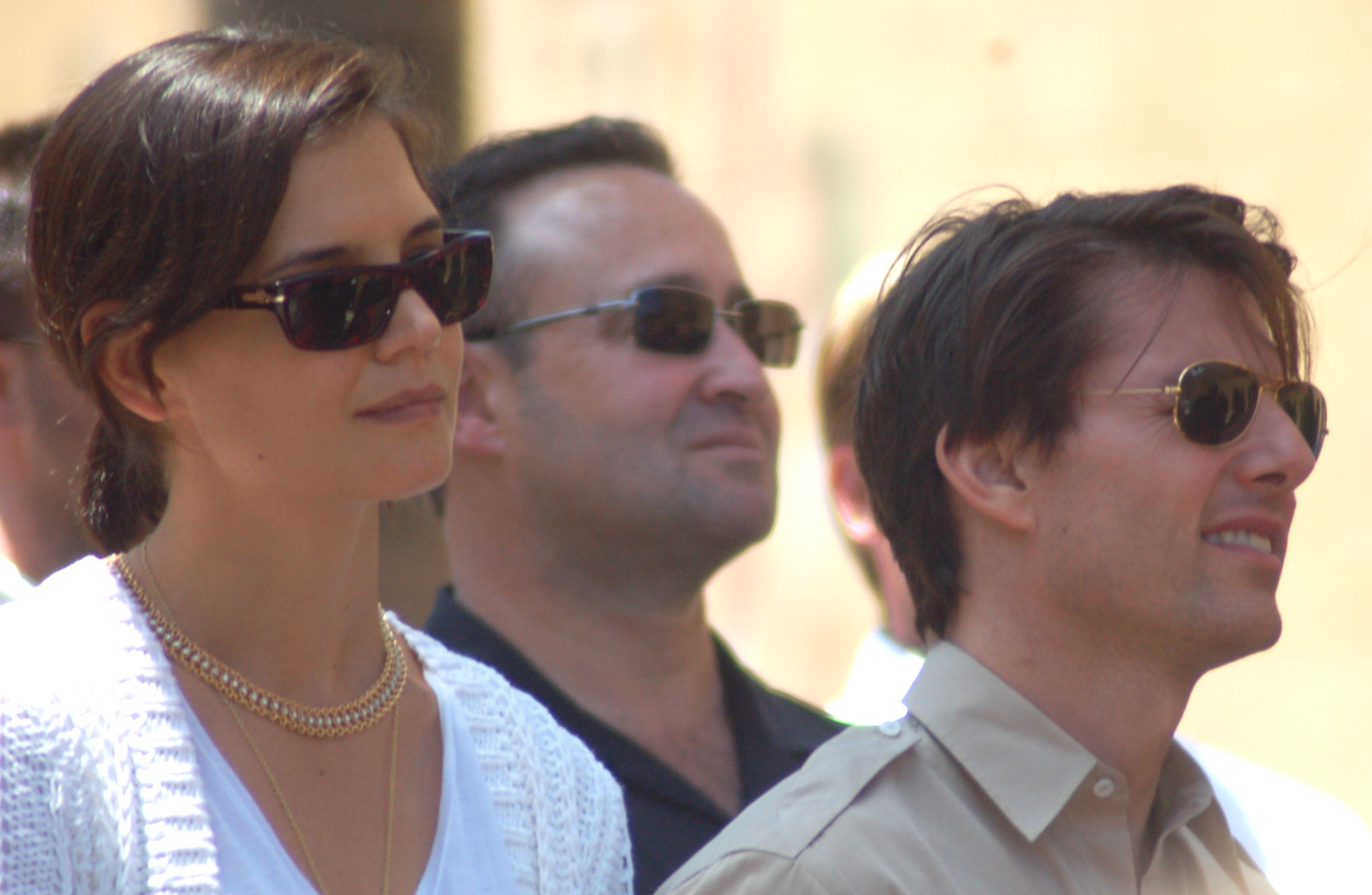 Katie Holmes and Tom Cruise in June 2009.